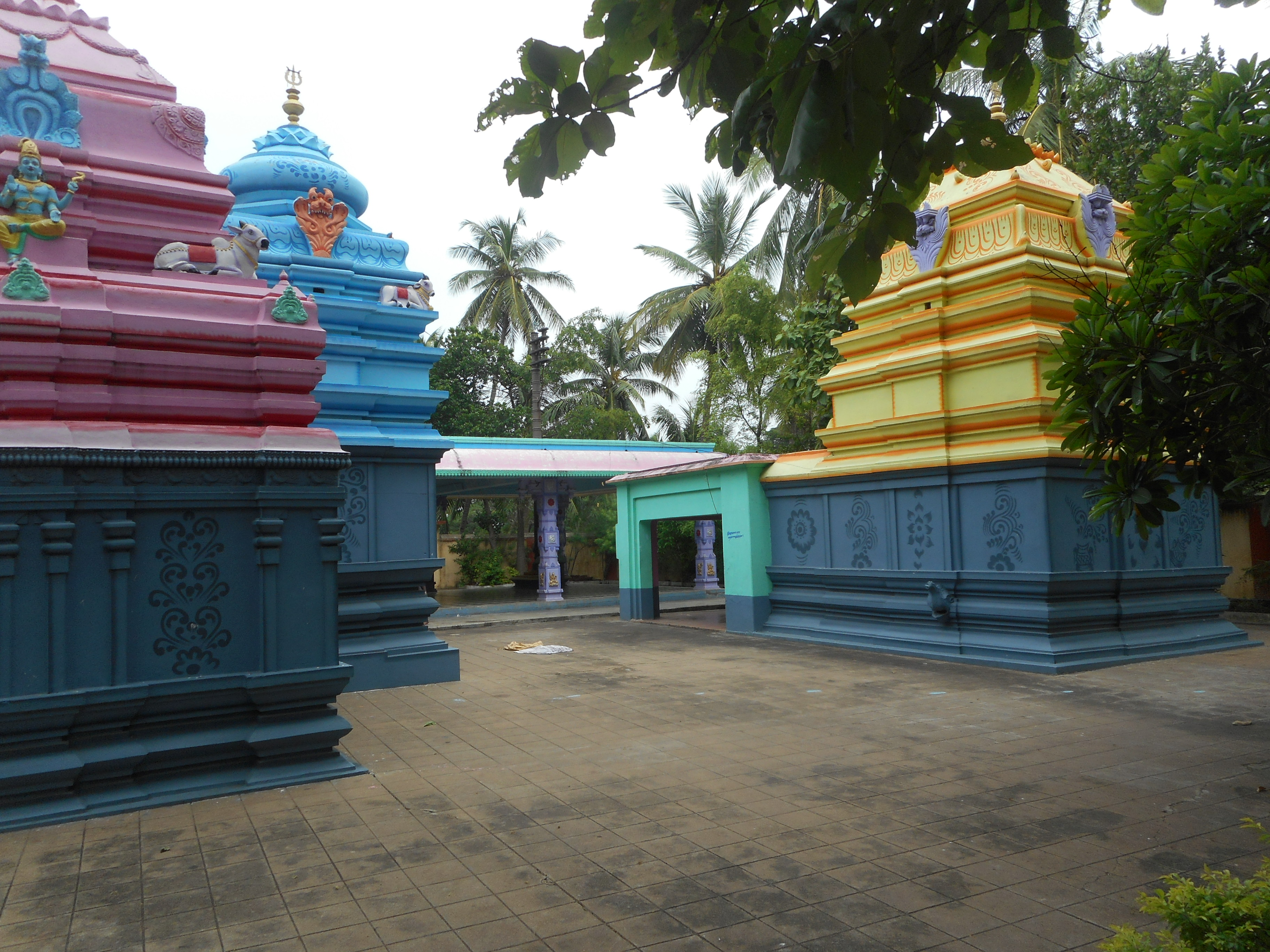 Sri sangameswara swamy temple complex located in Yeditha village of East Godavari District, Andhra Pradesh, india